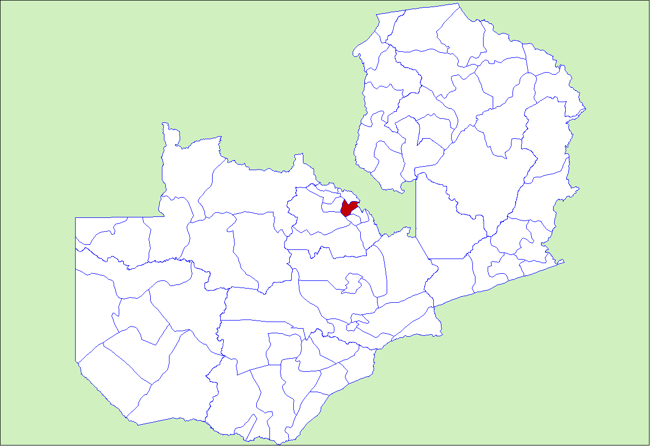 District locator in Zambia